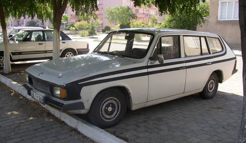 1976 Anadol SV 1600, a fibreglass-bodied, Ford-engined Turkish car. In the background a later Otosan-built Ford Taunus can be seen.